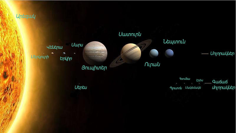 Planets and dwarf planets of the solar system with sizes shown to scale, but with distances extremely compressed. Orbital planes have been altered with similar artistic license to line up planets and dwarf planets in separate rows. Ordering is properly shown by mean distance from the Sun (Pluto can be closer than Neptune, but its average distance is farther).